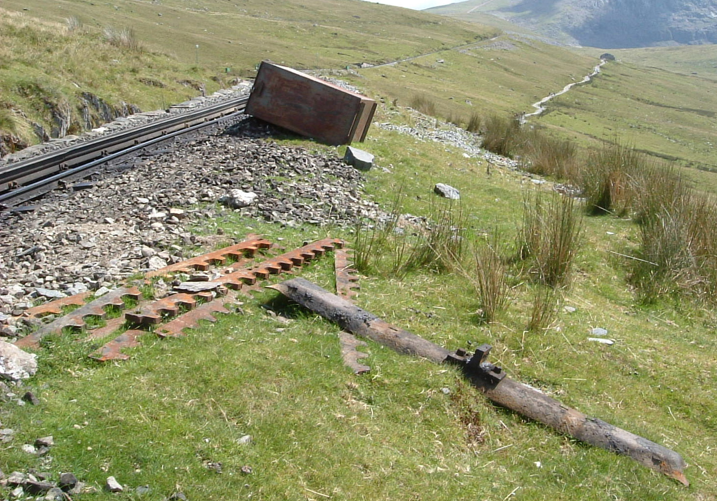 Snowdon Mountain Railway. Rack bars and a sleeper at the site of track repairs just below Halfway Station. 31st July 2004 Photographer - A.M.Hurrell Camera - Fuji FinePix F401 Modified - Trimmed using Finepix Software